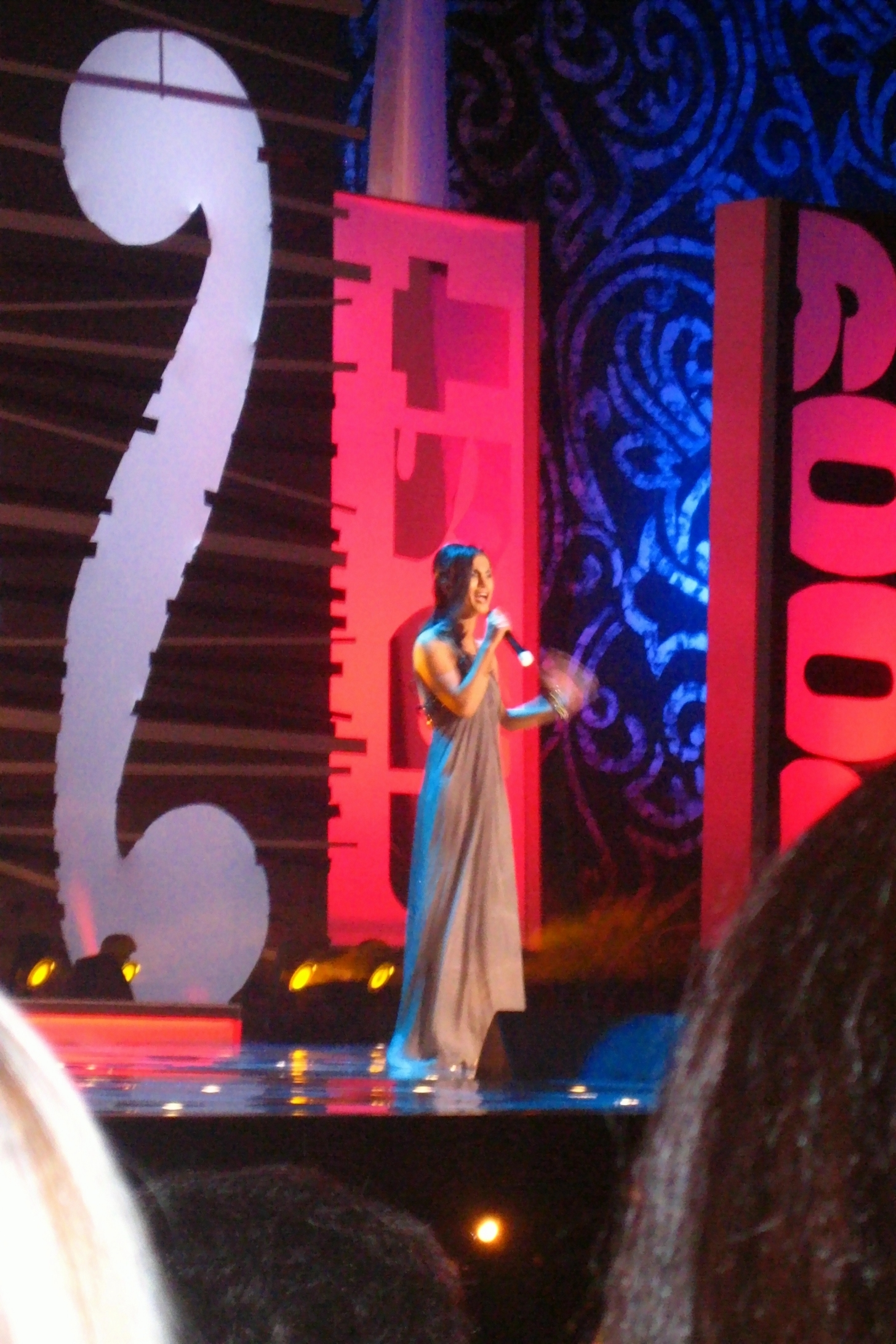 Anjeza Shahini at the 48th Albanian Festival i Këngës